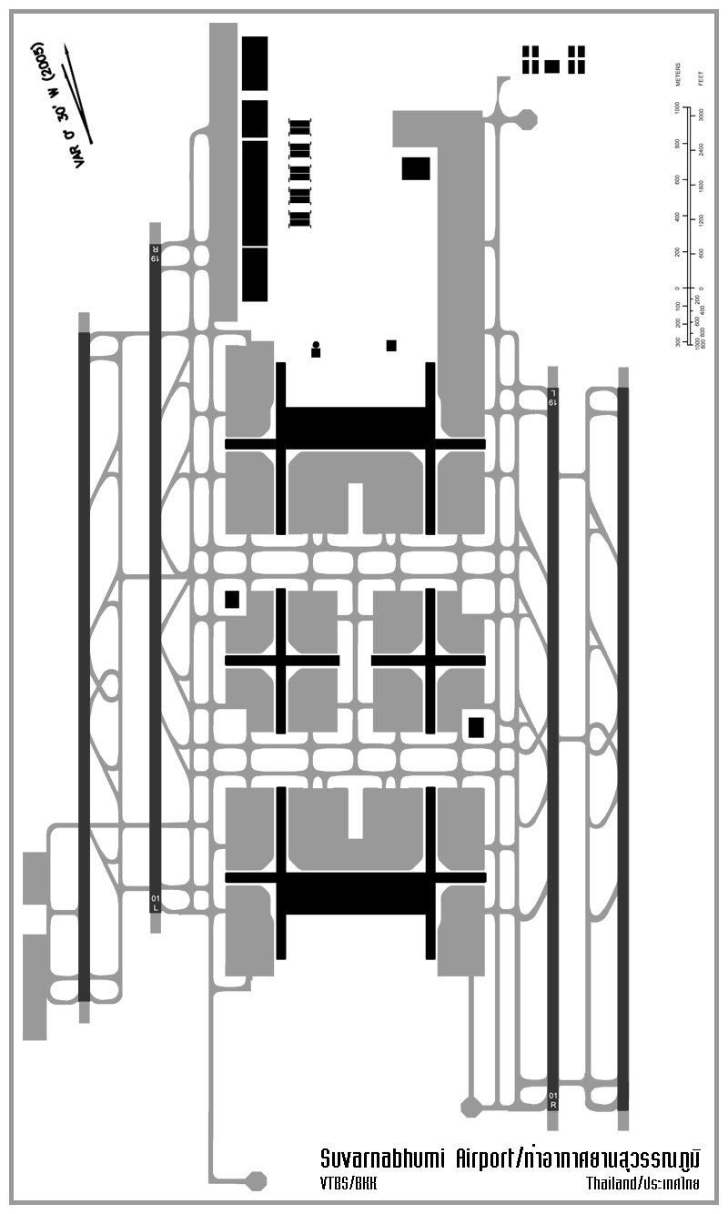 Suvarnabhumi Airport layout - phrase 2 See phrase 1 - 80px|border